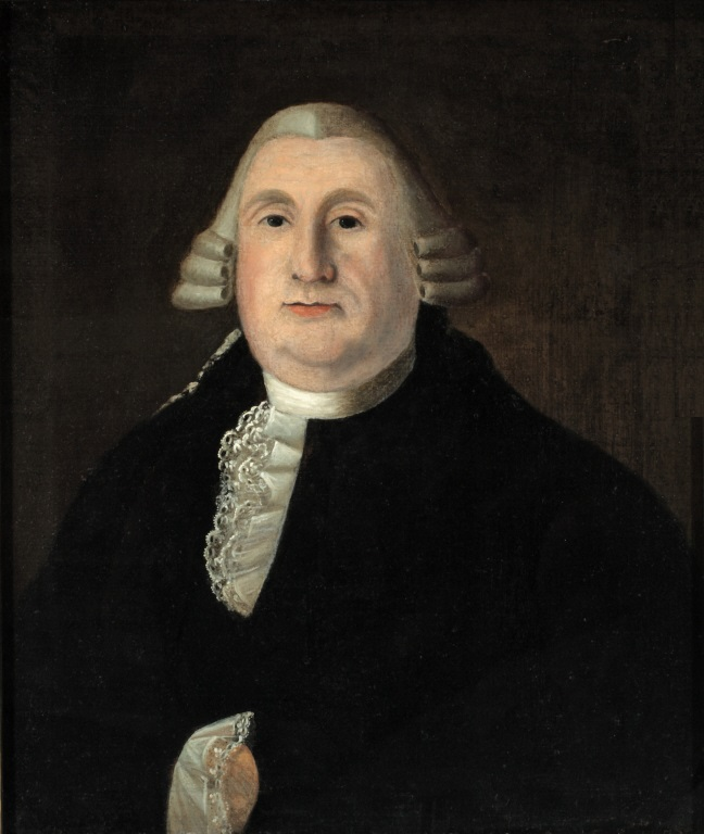 Painting, Rene-Ovide Hertel de Rouville, 1720-1792, John Mare (attribué à / attributed to), About 1769, Oil on canvas, 65.6 x 53.5 cm